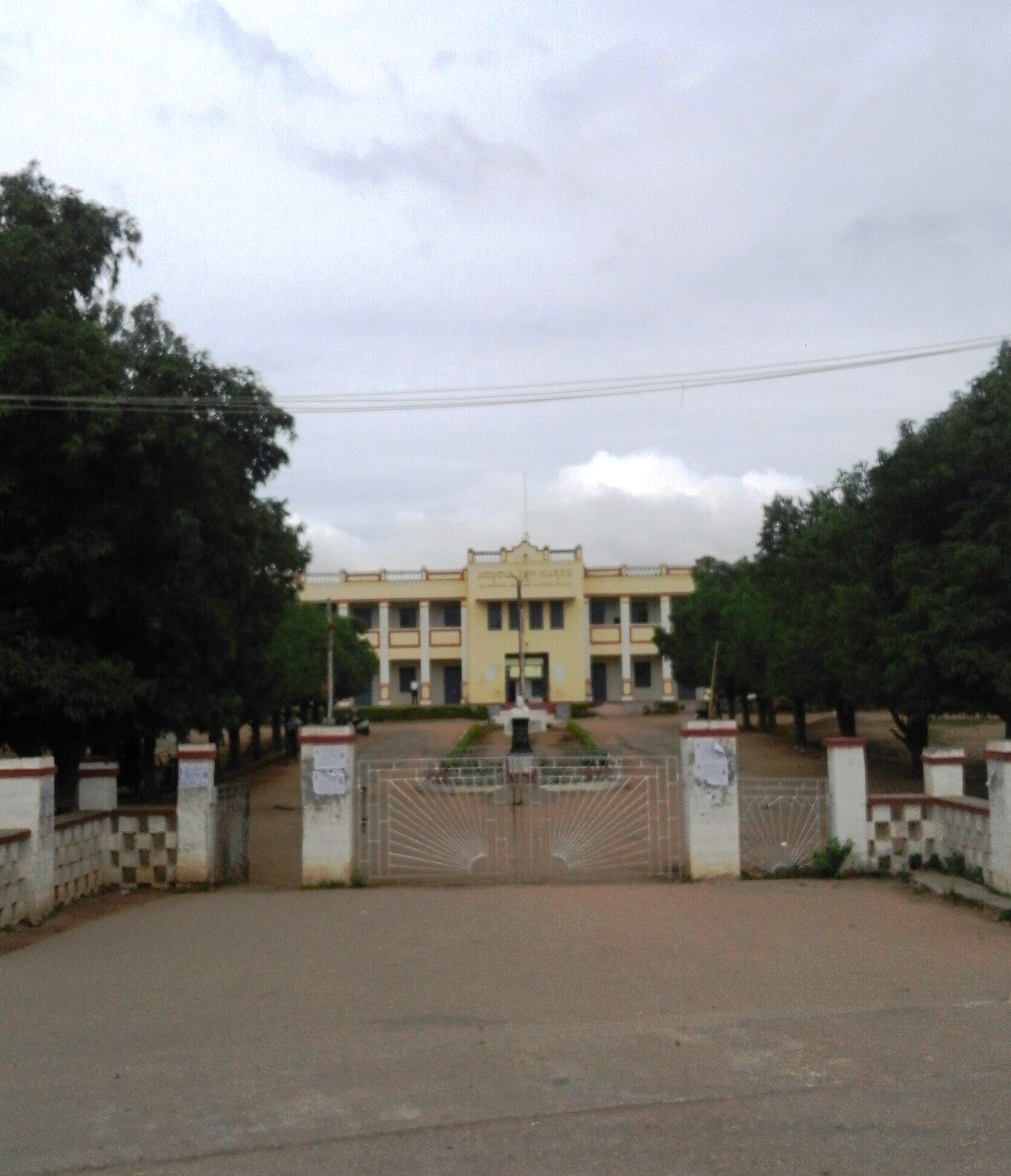 Tirumakudal Narsipur Town, Mysore district, Karnataka state, India.